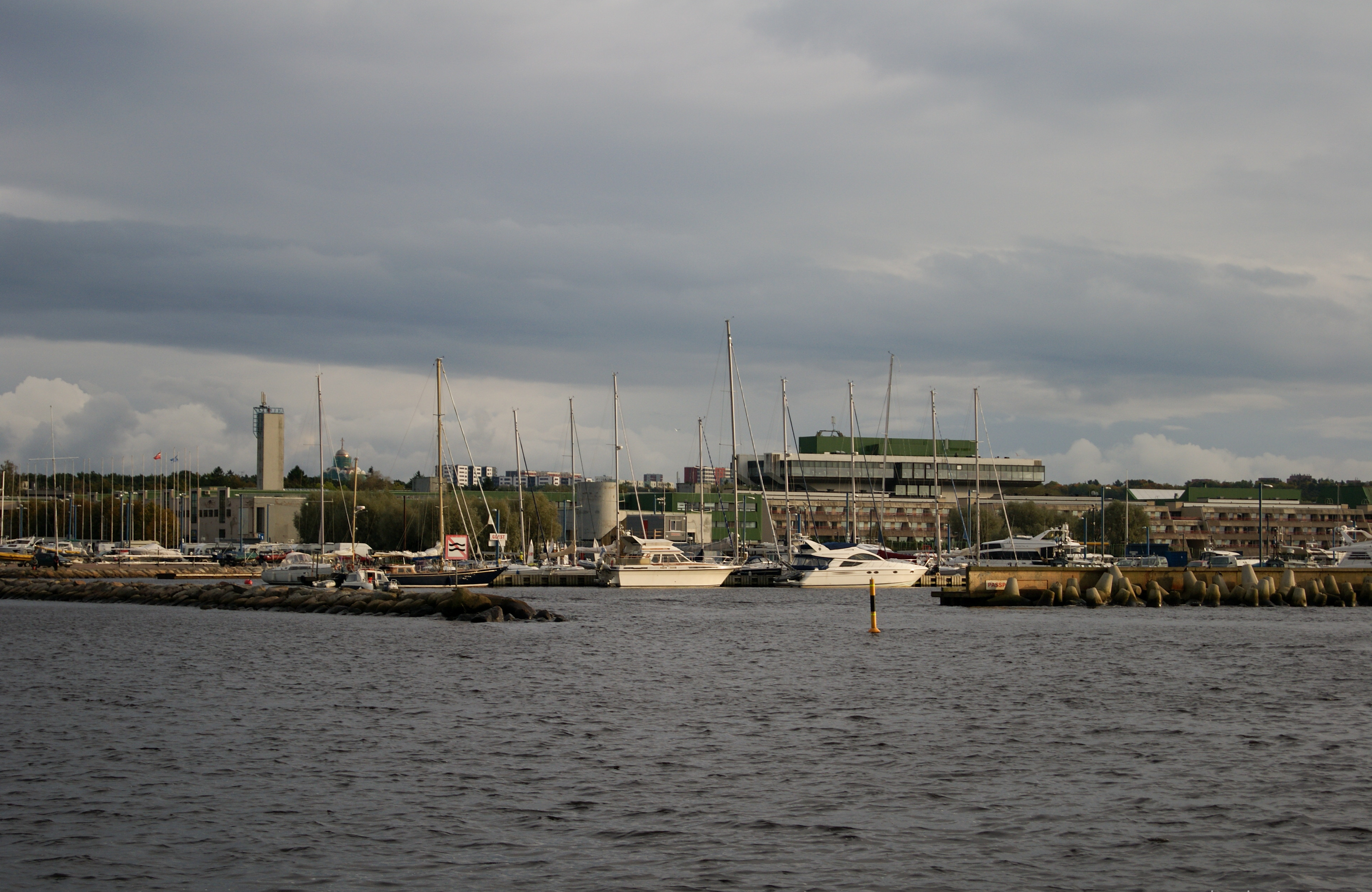 Tallinn Olympic Yachting Centre